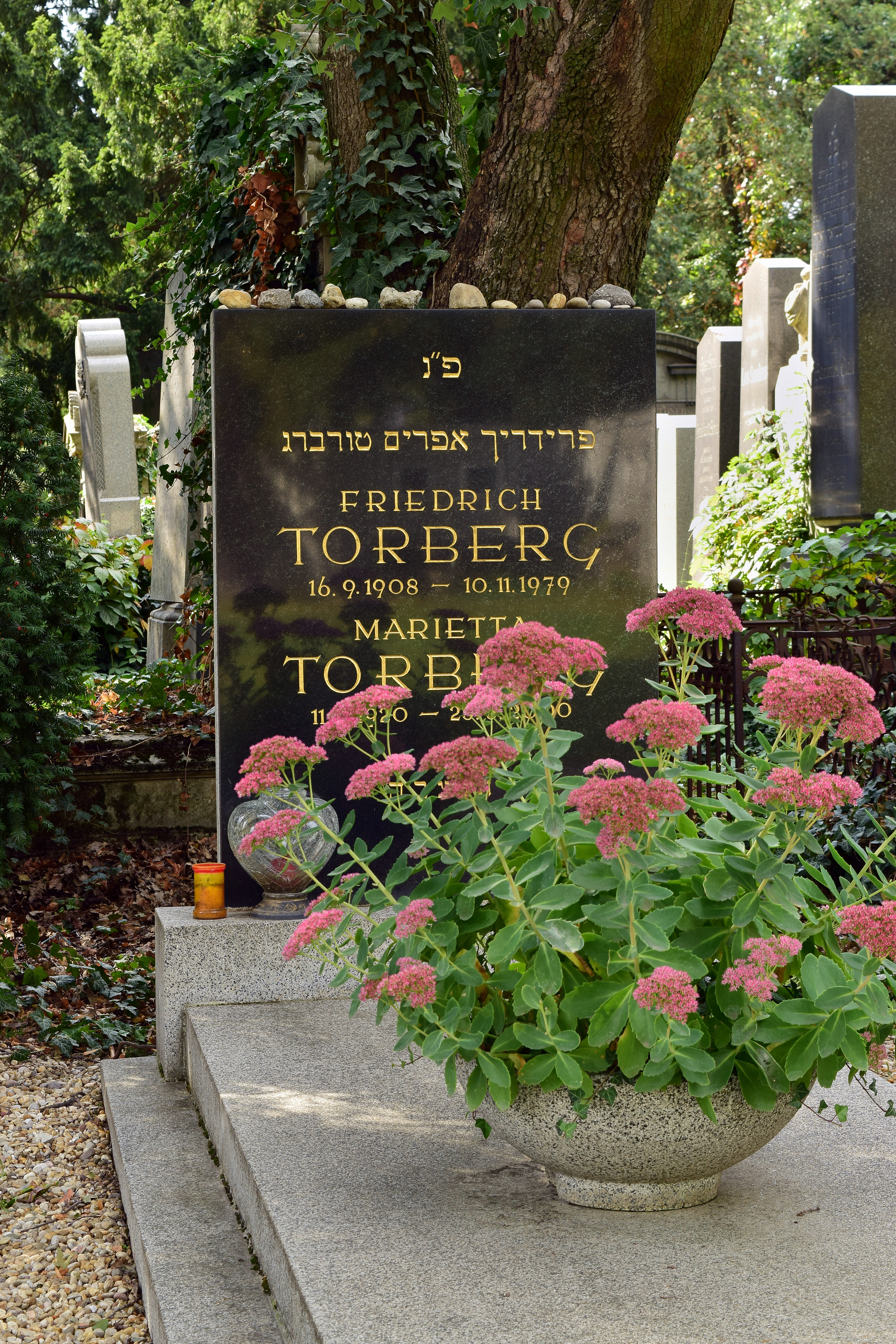 Grave of honor of Friedrich Torberg at the Wiener Zentralfriedhof